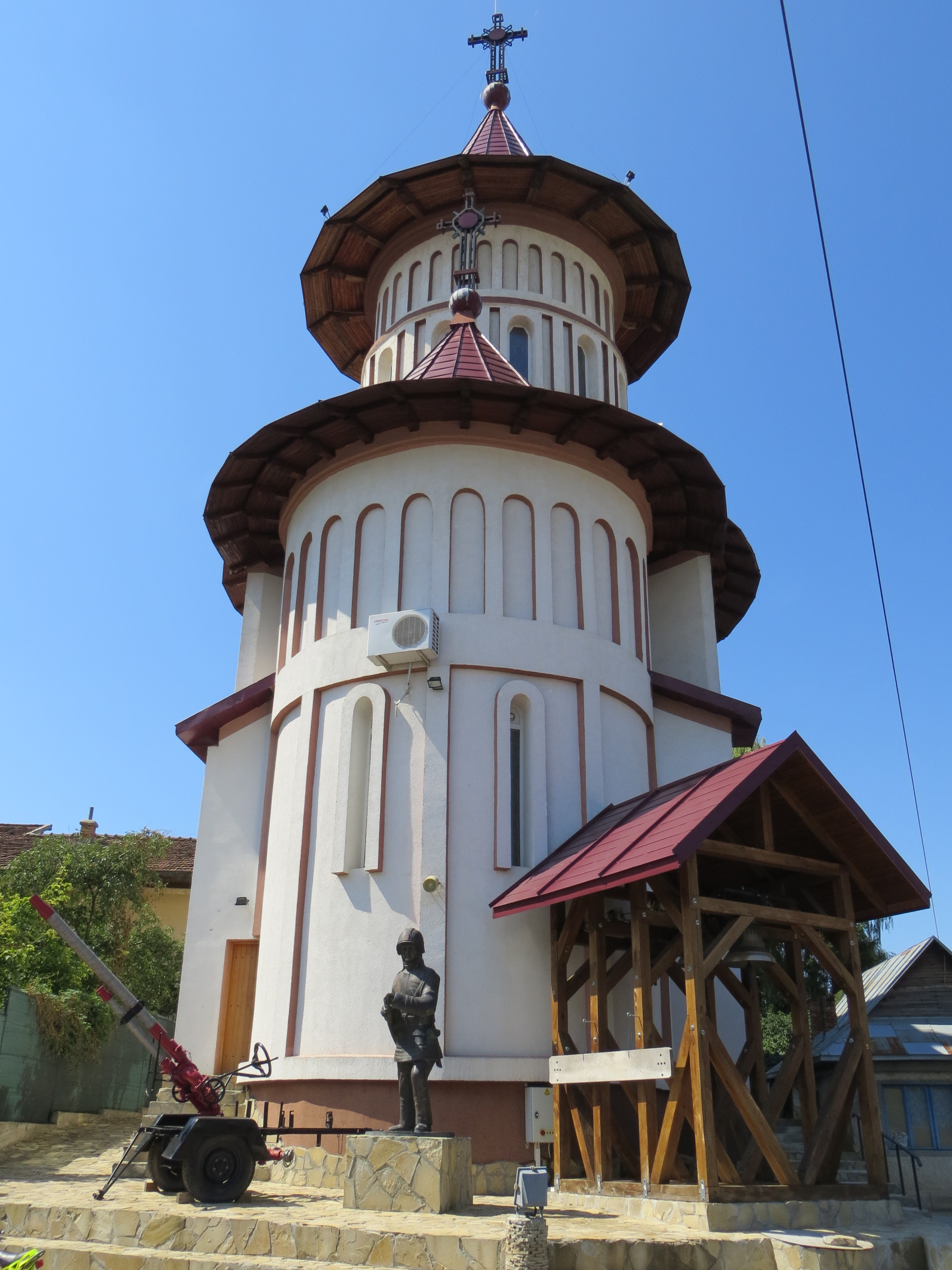 Military Church of Saint Joseph the New of Partoș in Suceava and the statue of the firefighter.